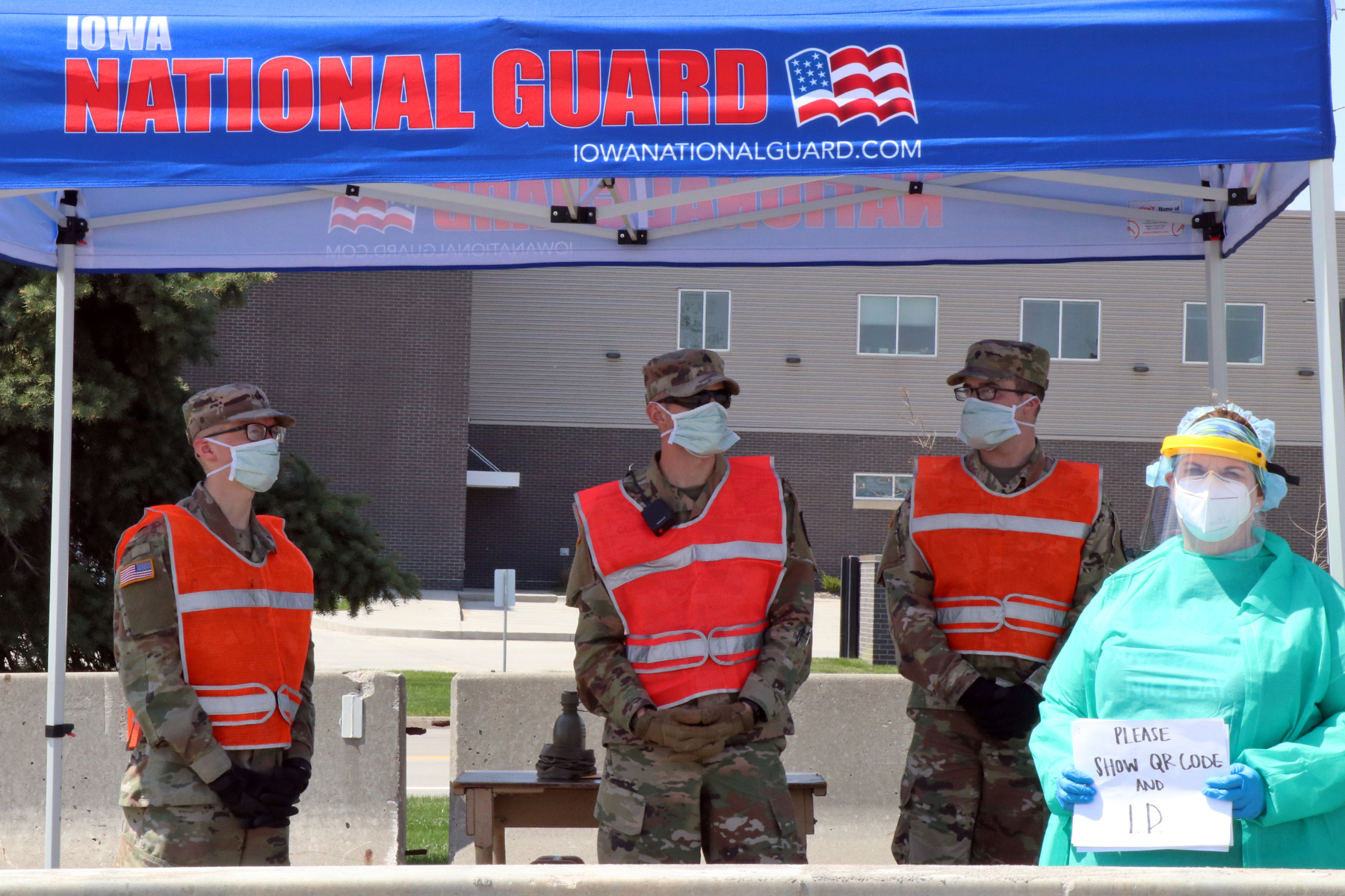 Iowa National Guard Soldiers of the 186th Military Police Company and a local health care professional operate a traffic control point at the COVID-19 testing site at the Iowa Events Center in Des Moines, Iowa, on April 25, 2020. The Soldiers were called to State Active Duty in order to support the state’s response to the pandemic, including manning the first drive up testing site in Iowa. “The main thing [people] need to know is that they need to have a test scheduled and a QR code printed out so when they come, they can actually get the test,” said Lt. Col. Wesley Hall, Deputy Commander of Administration at the Iowa Medical Detachment. To receive a QR code, visit the Test Iowa website. (U.S. Army National Guard photo by Cpl. Samantha Hircock)